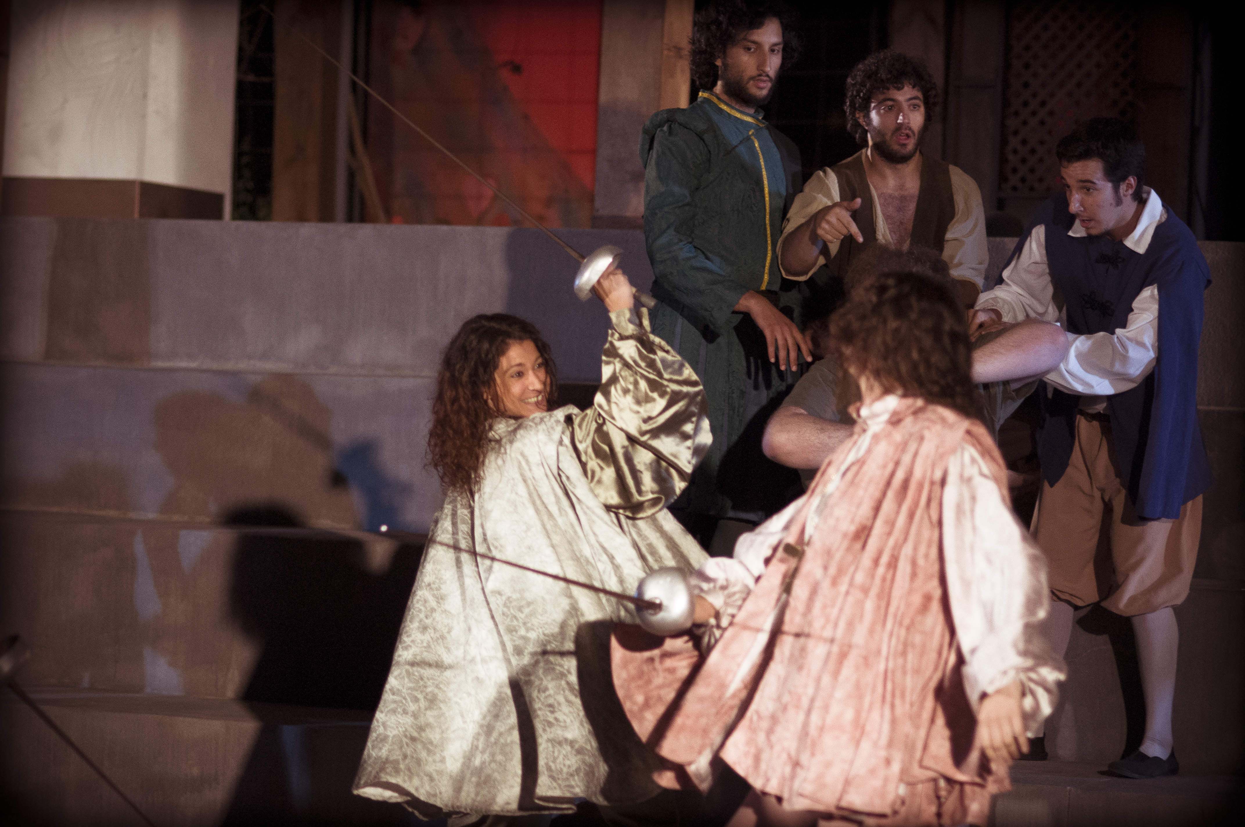 Siglo de Oro en el patio de la ESAD.